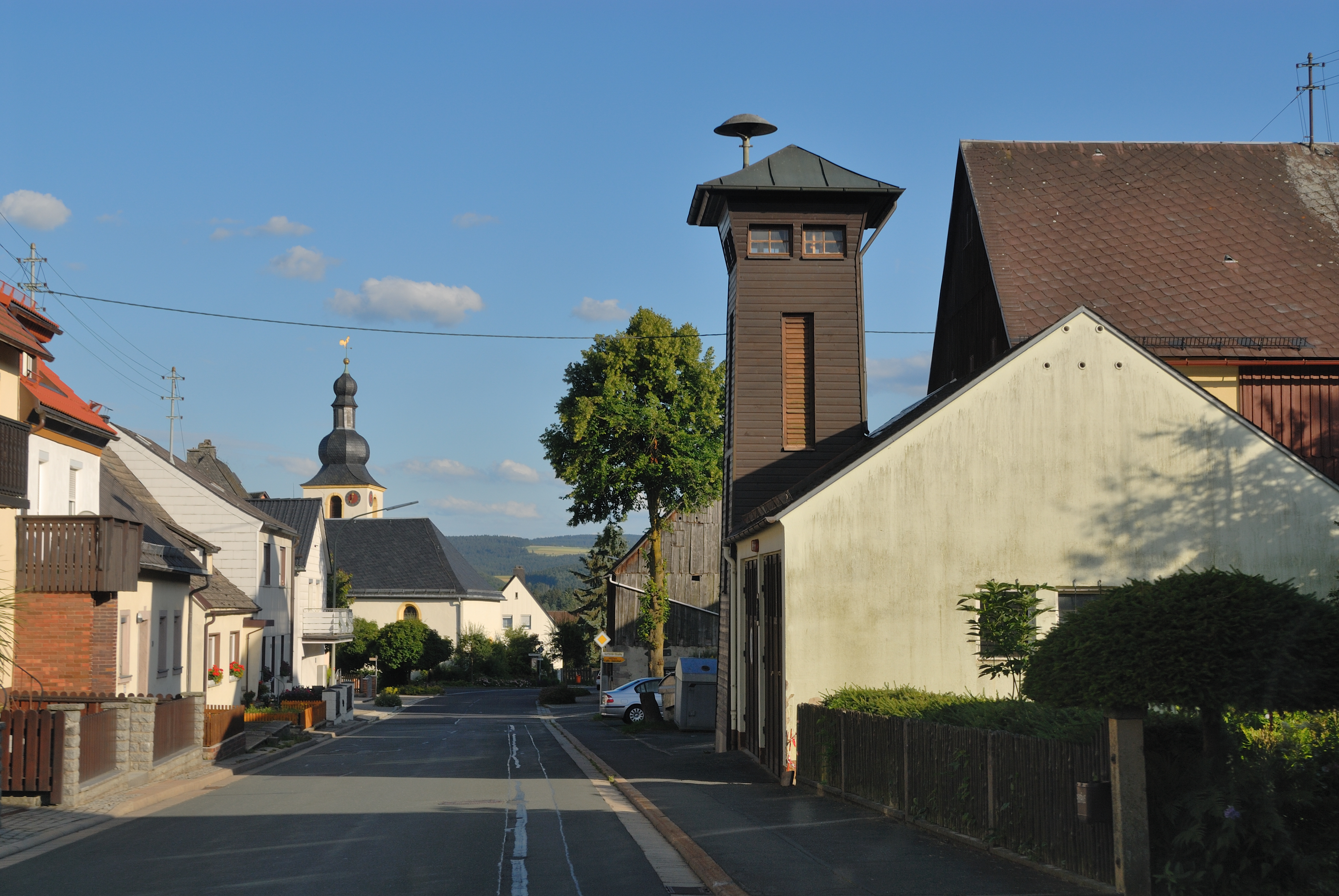 Road shot of Gefrees-Streitau.